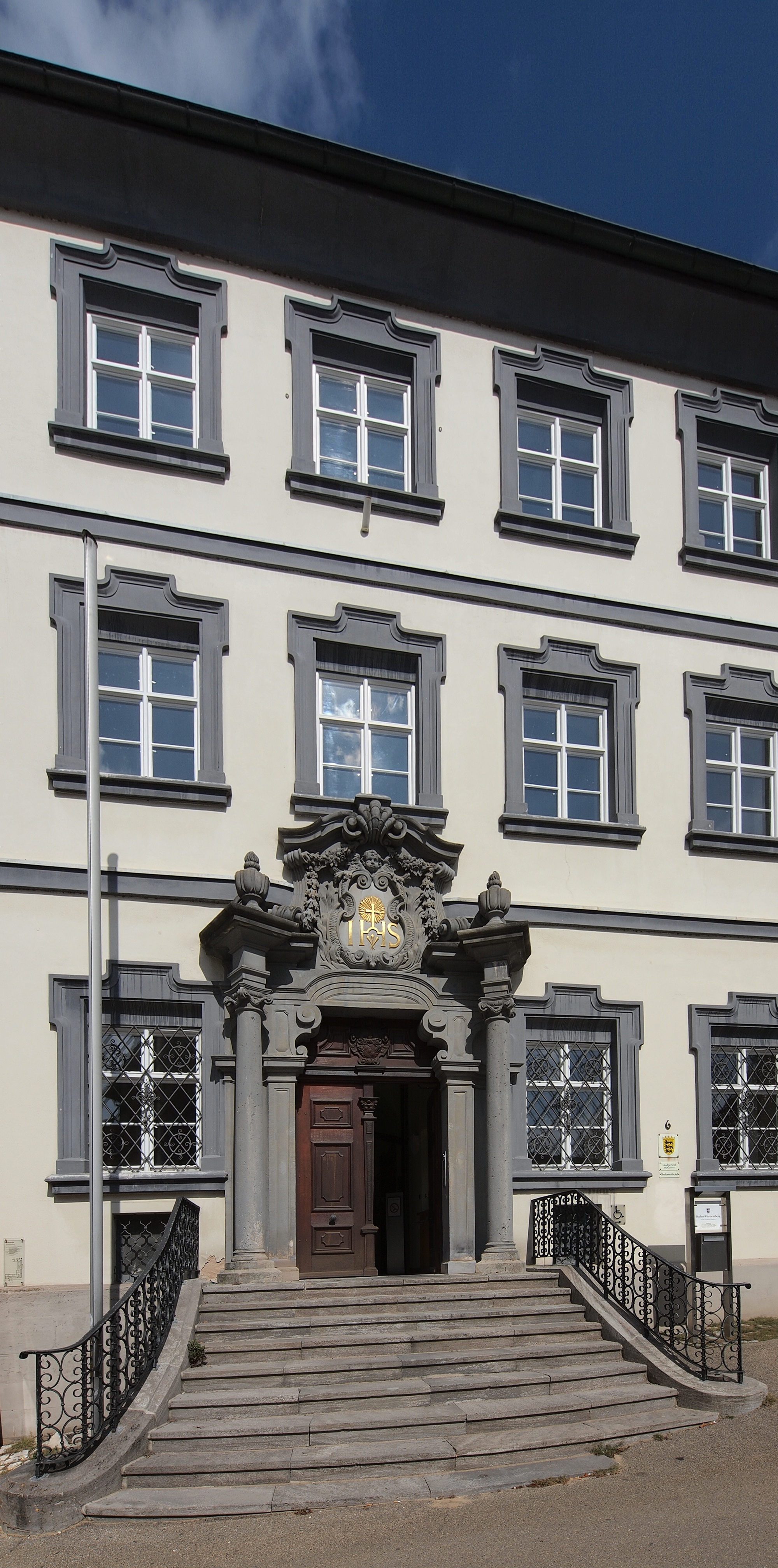 Historic entrance of the Staatsanwaltschaft (prosecution authority) Ellwangen